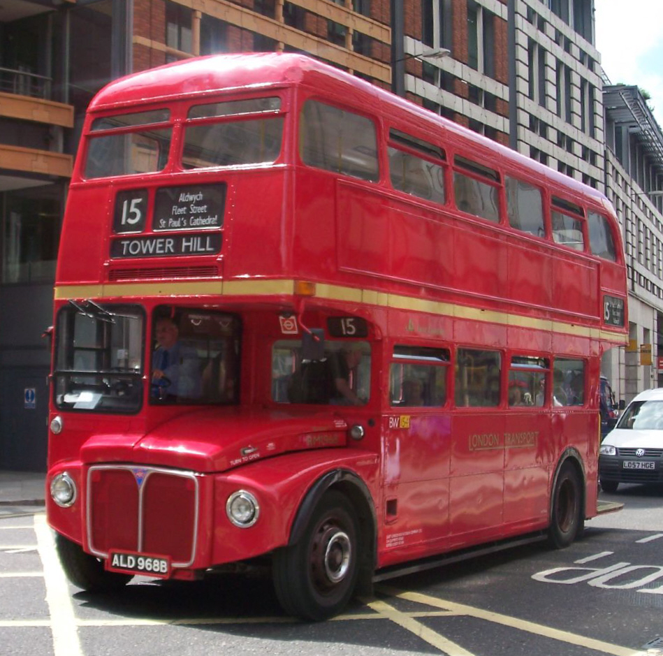 East London Routemaster bus RM1968 (reg. ALD 968B) operating London Buses heritage route 15, pictured on Ludgate Hill heading east en-route to Tower Hill, having just passed City Thameslink railway station.